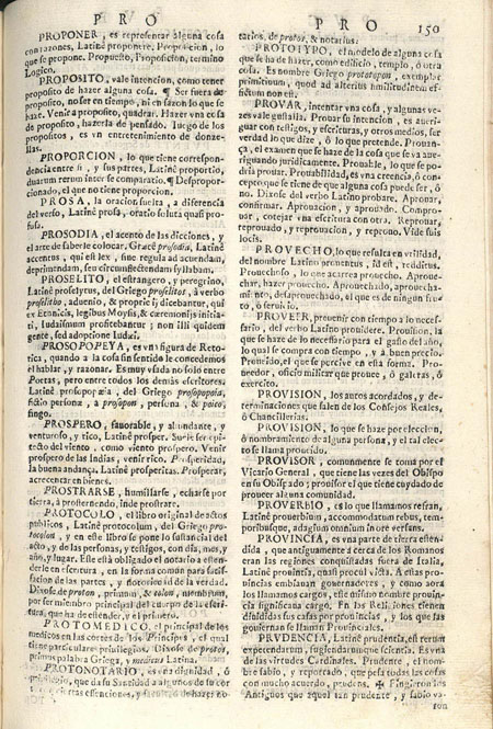 A page from Tesoro de la lengua castellana o española (Treasury of the Castillian or Spanish language), the first monolingual Castillian Spanish dictionary